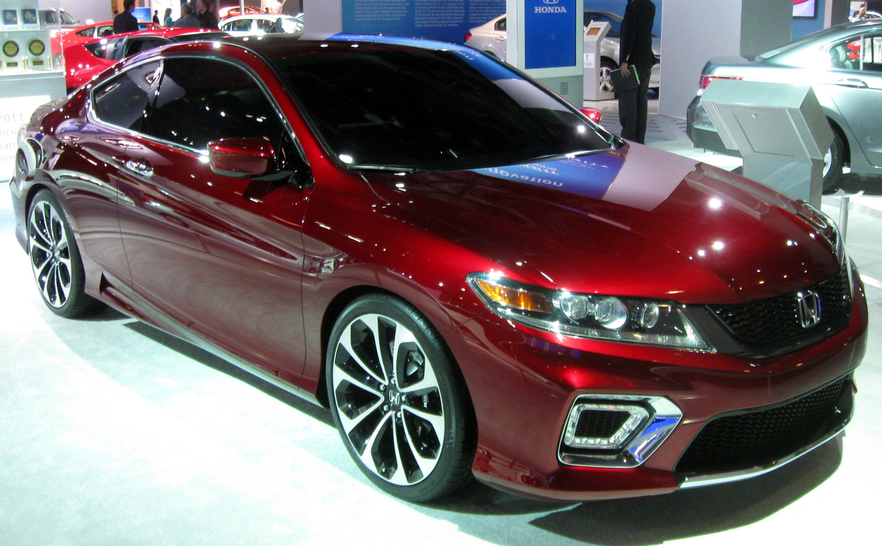 2013 Honda Accord concept photographed at the 2012 New York International Auto Show.